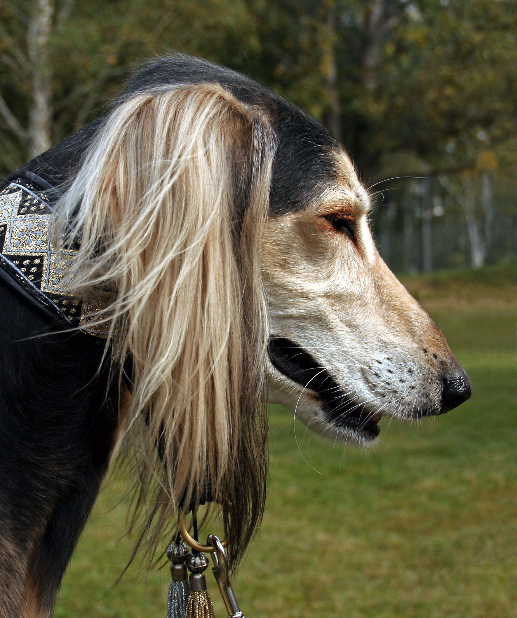 A Saluki at a dog show (corected)